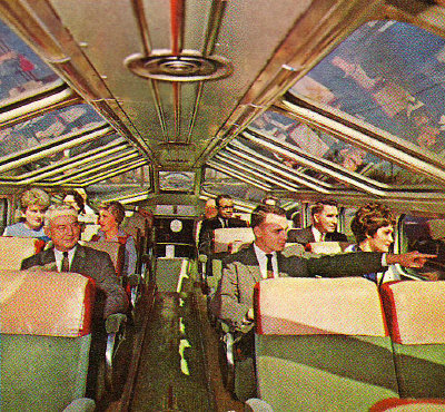 Dome car interior on the Baltimore and Ohio Railroad's Capitol Limited.